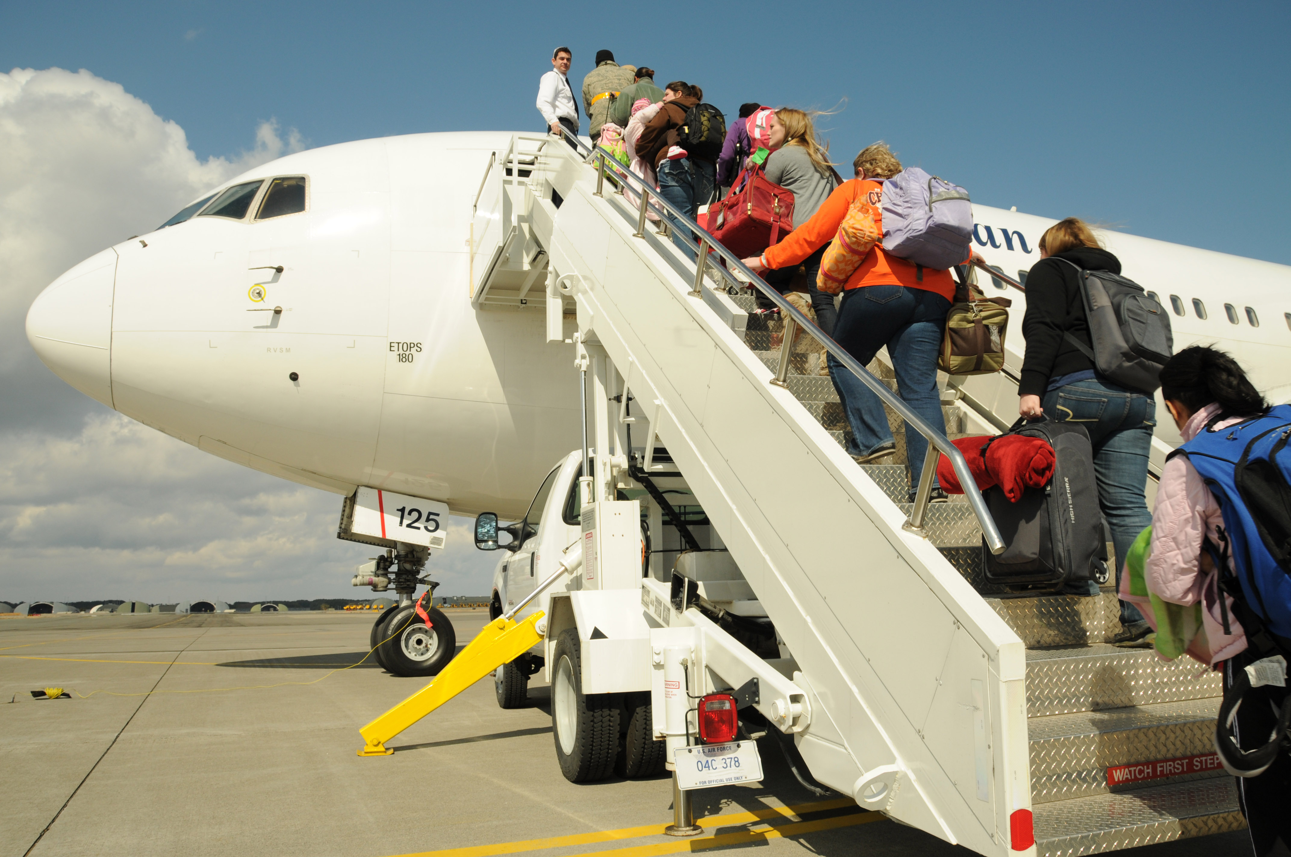 NAVAL AIR FACILITY MISAWA, Japan (March 22, 2011) Family members of U.S. military personnel board a flight to the continental United States during an authorized voluntary departure from Japan. The departure was authorized due to damage caused by the recent 9.0 magnitude earthquake and subsequent tsunami. (U.S. Navy photo by Mass Communication Specialist 1st Class Jose Lopez, Jr./Released)